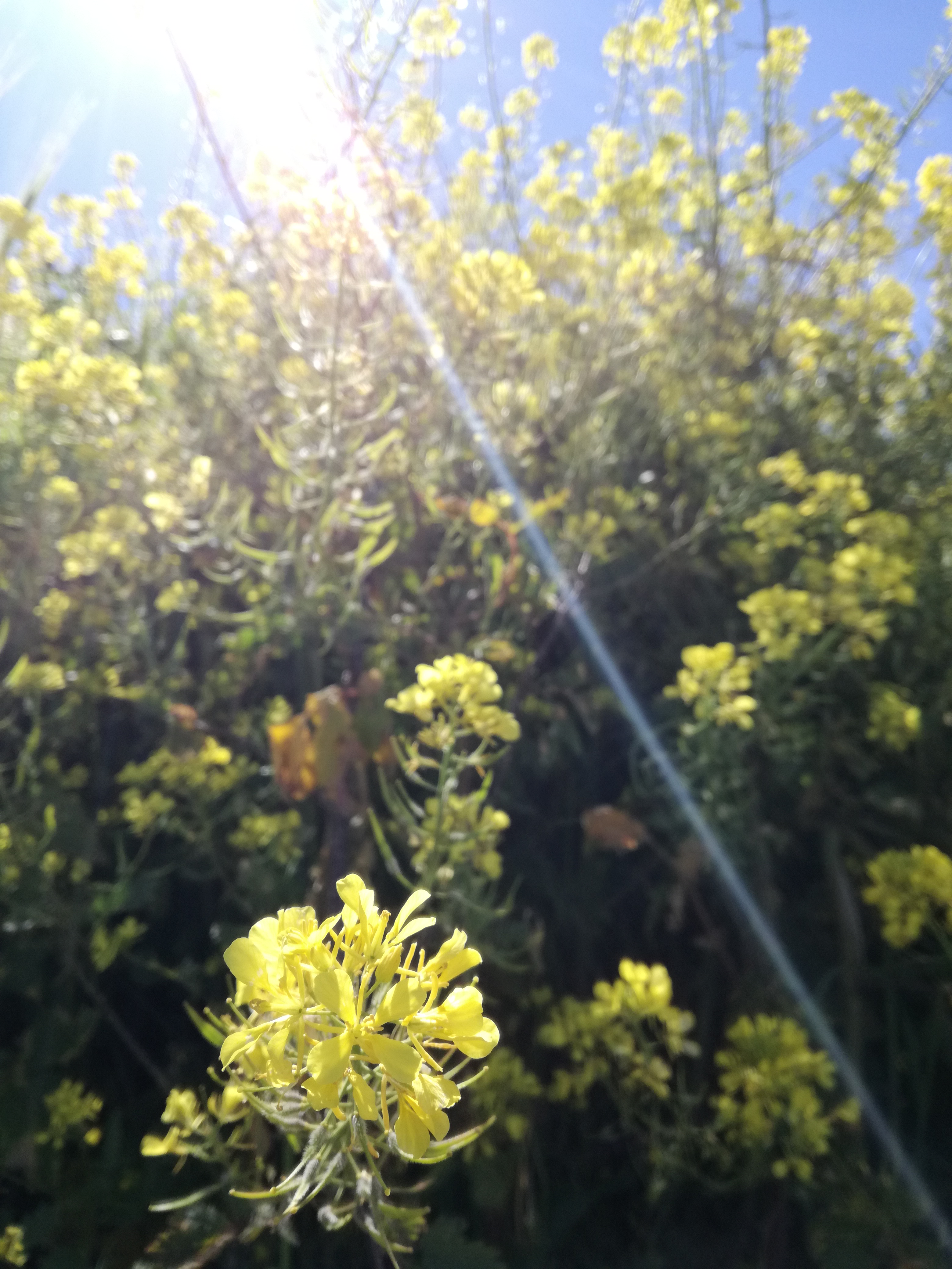 Sun rays permeate the wild flowers in Palestine